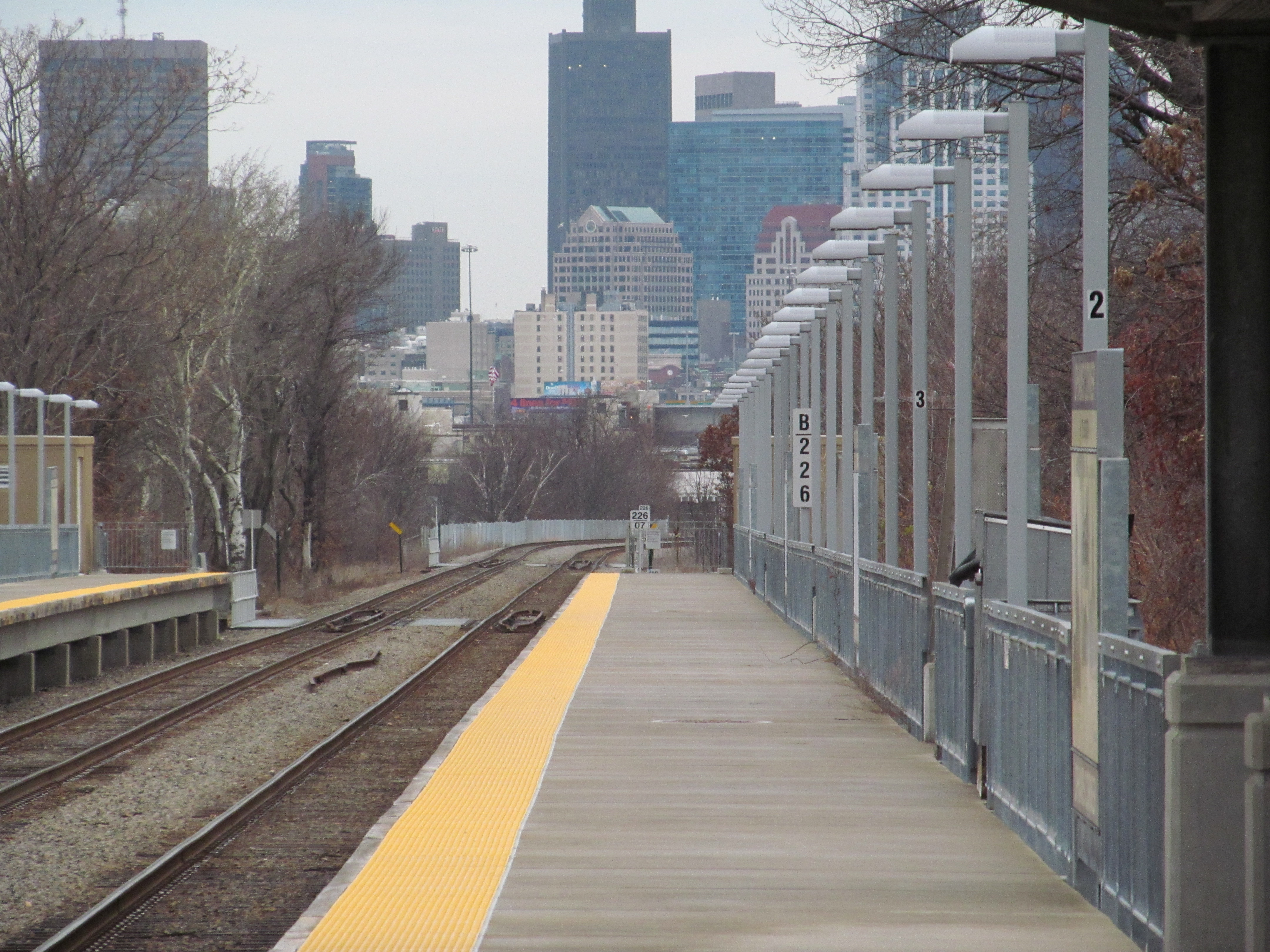 Inbound platform at Uphams Corner, with the Boston skyline behind